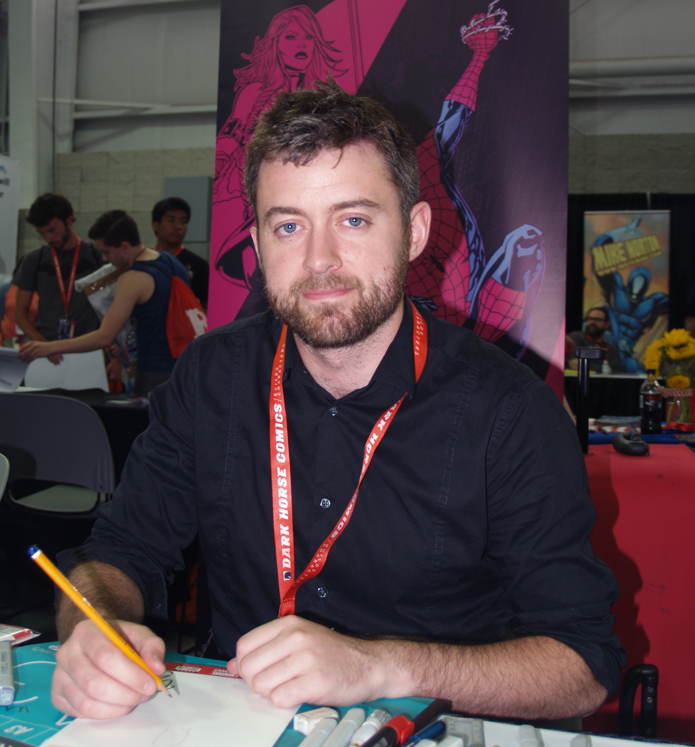 Comics artist Will Sliney on Sunday, June 15, 2014, Day 2 of Special Edition NYC, a comic book convention at the Jacob K. Javits Convention Center in Manhattan. This photo was created by Luigi Novi. It is not in the public domain, and use of this file outside of the licensing terms is a copyright violation.